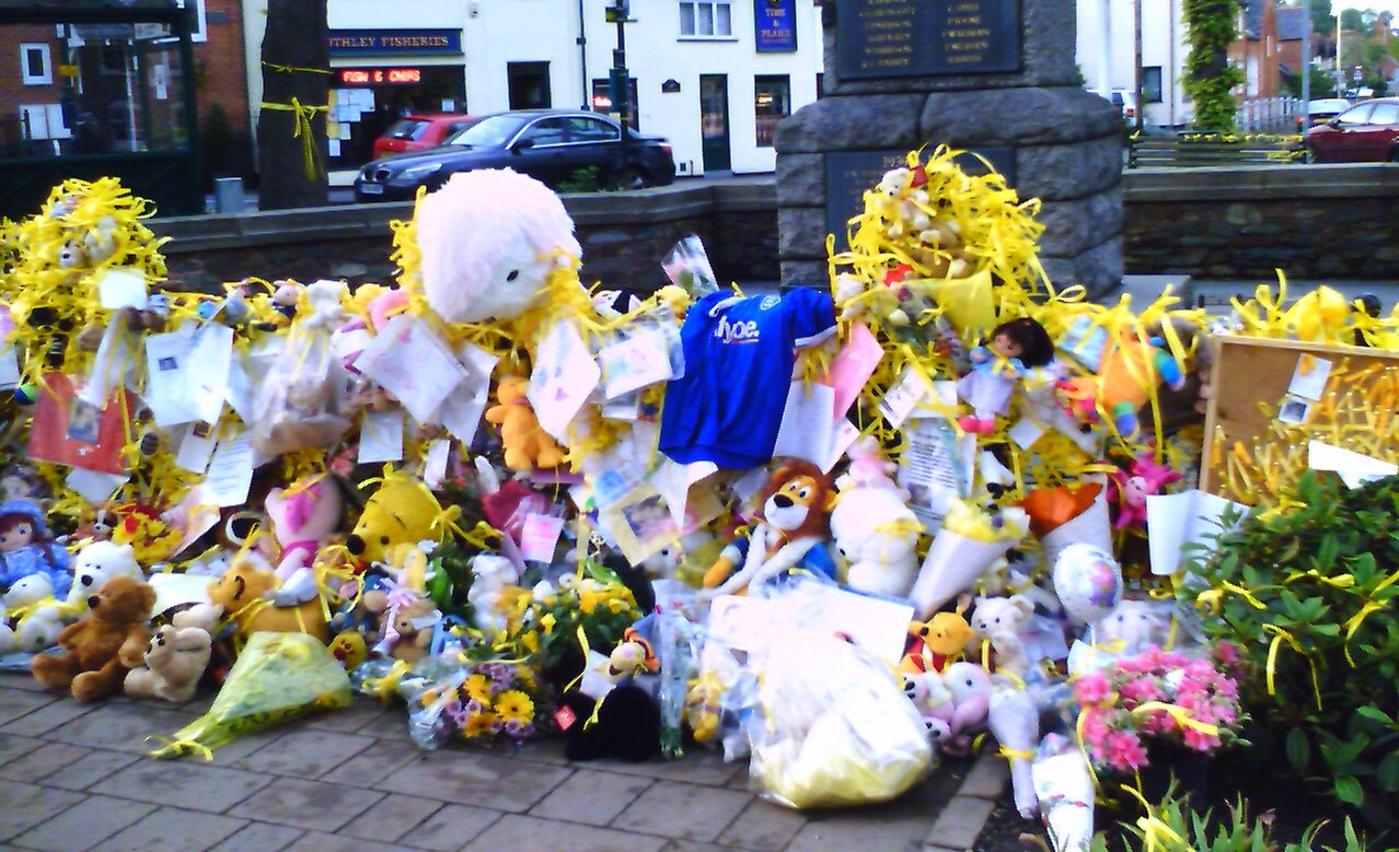 The tributes to Madeleine in the square in her hometown of Rothley on 17 May 2007.